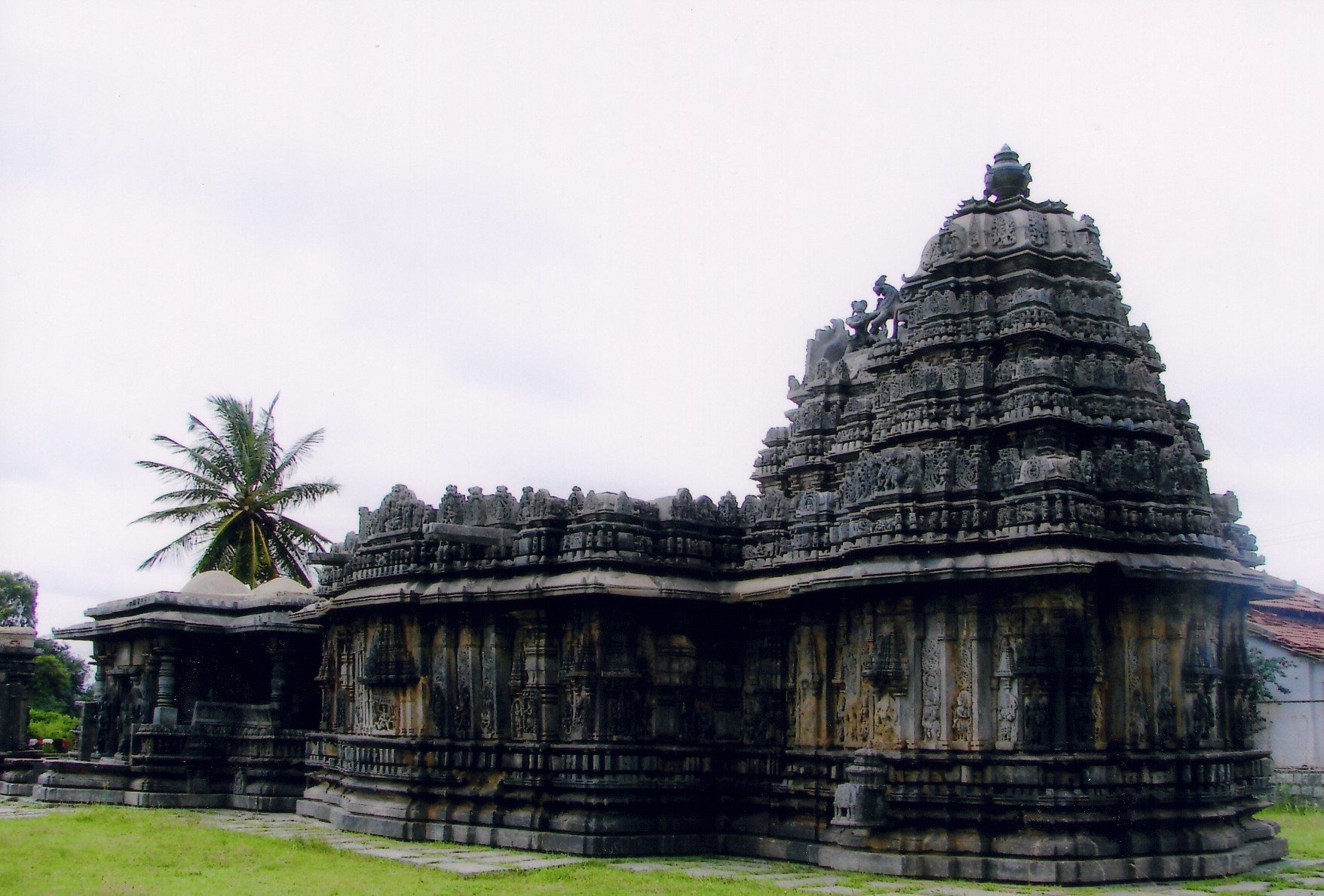 Located in Bucesvara temple (also spelt Bucheshvara or Bucheshwara) at Koravangala, Karnataka, India